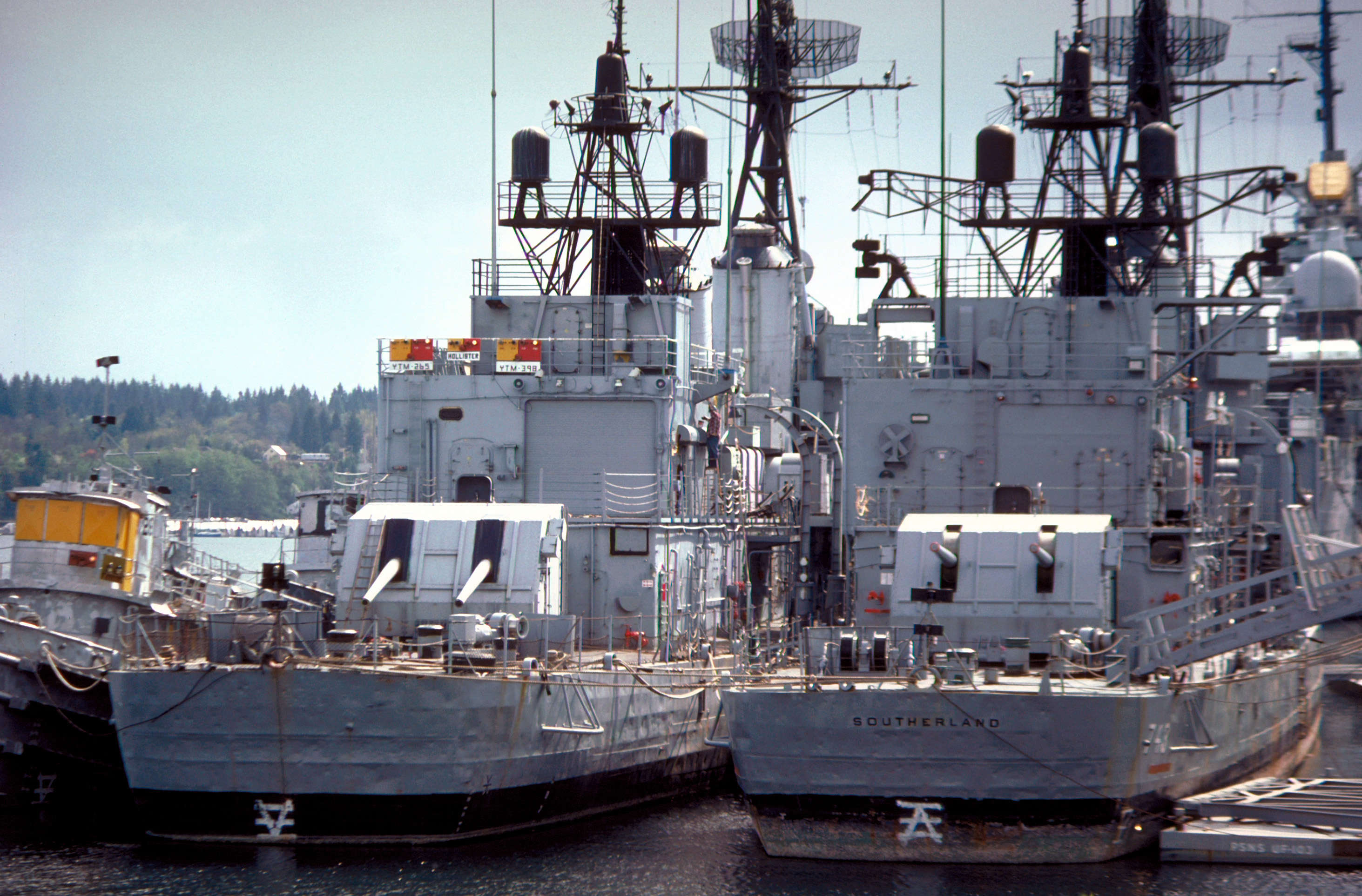 The decommissioned U.S. Navy Gearing-class destroyers USS Southerland (DD-743) and USS Hollister (DD-788) docked at the Naval Inactive Ship Maintenance Facility, Puget Sound, Washington (USA), in 1981. Hollister had been decommissioned in September 1979, Southerland on 26 February 1981.